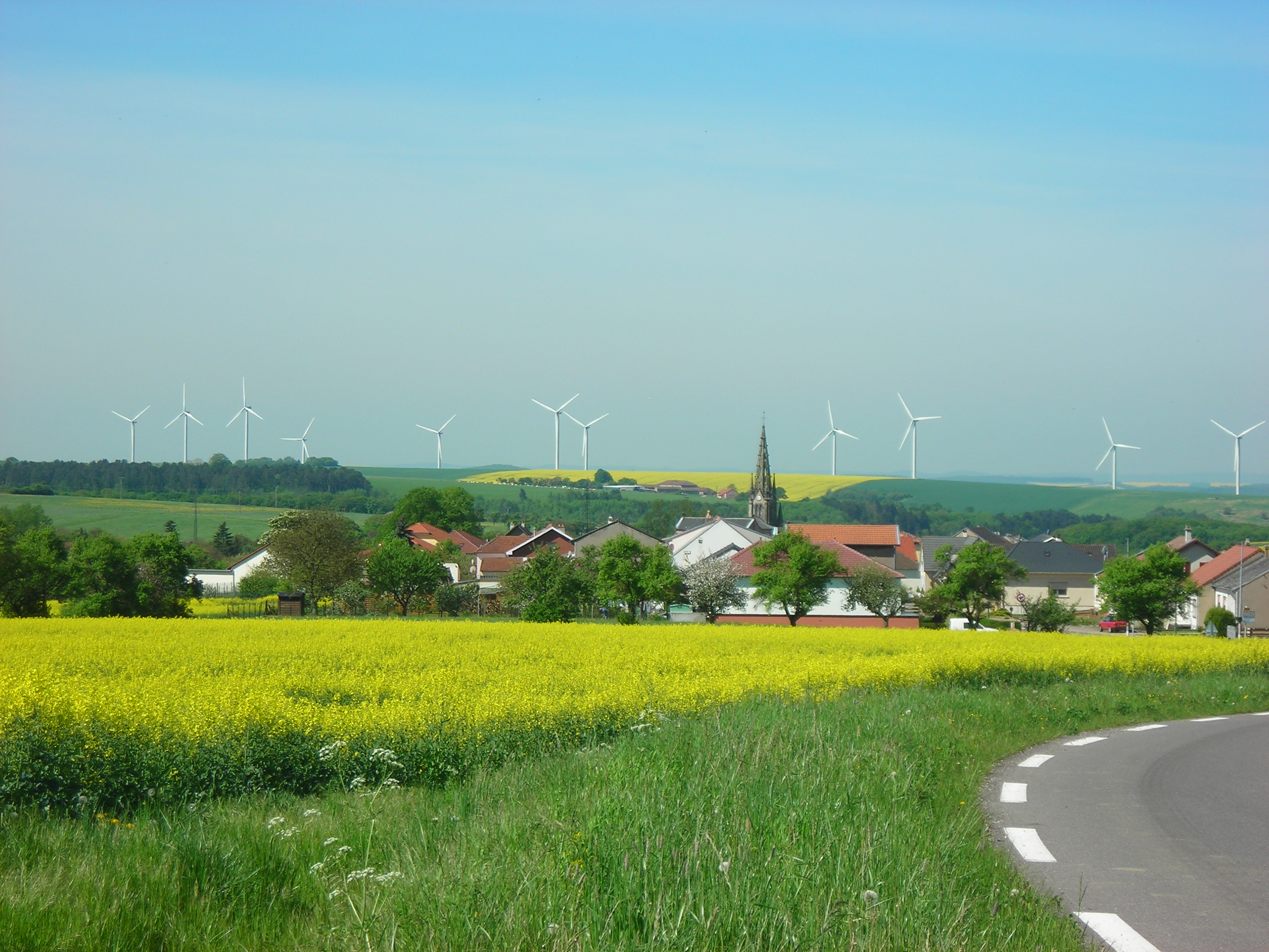 Coume